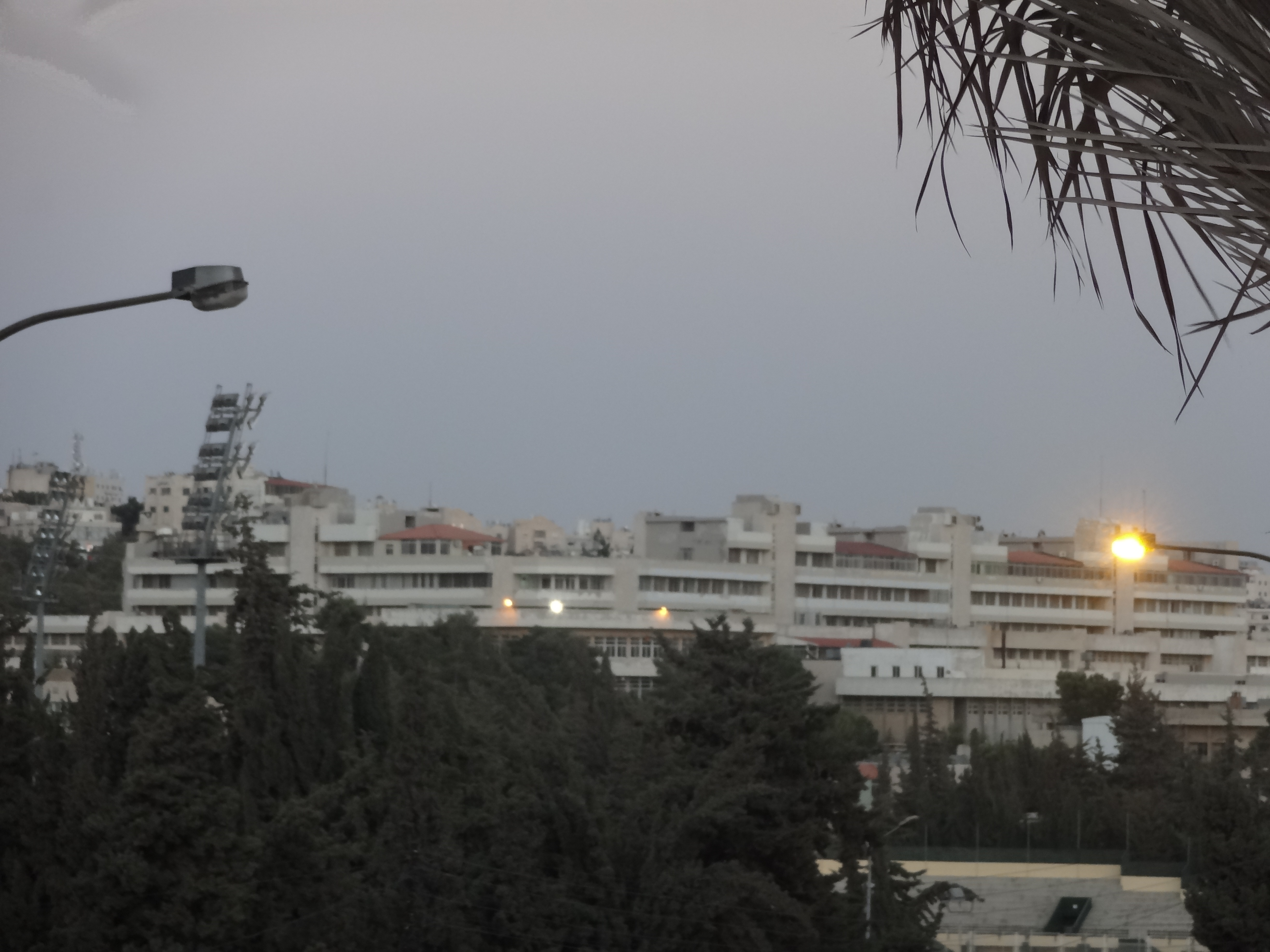 Dead Sea 1618 labs in University of Jordan